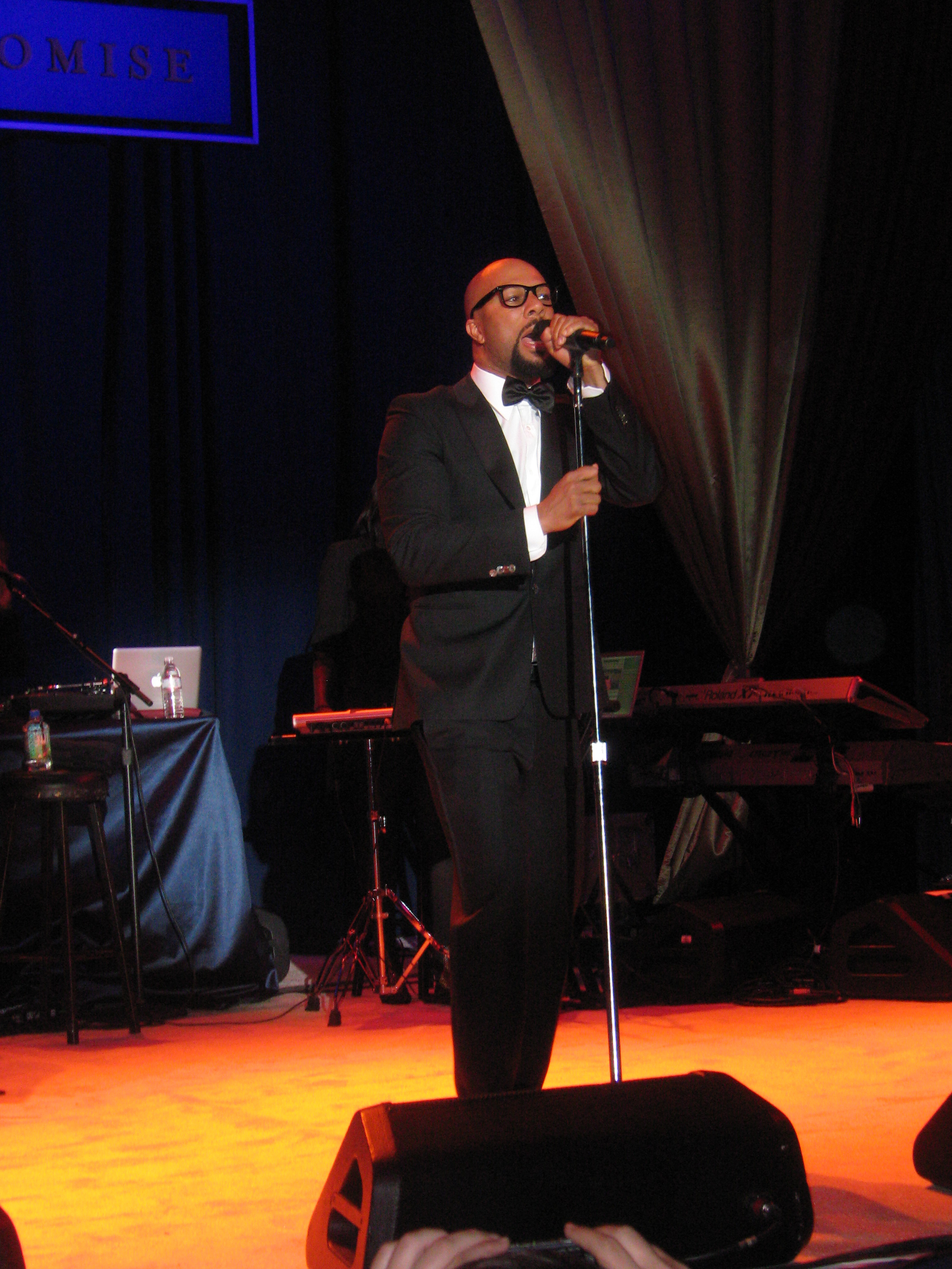 Common (rapper) at 2009 Obama Home States Inaugural Ball